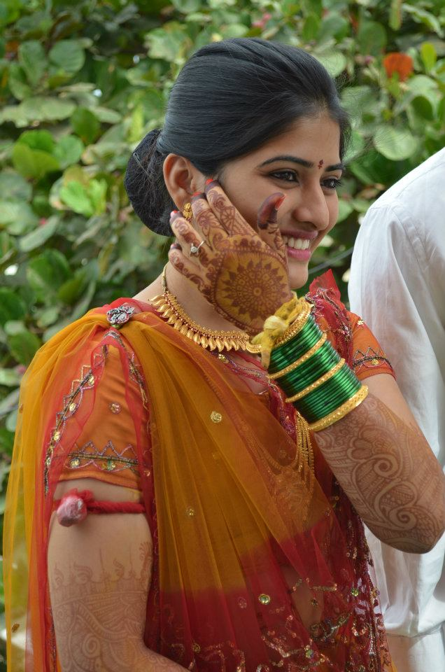 चंपाकळी हार घातलेली एक नववधू